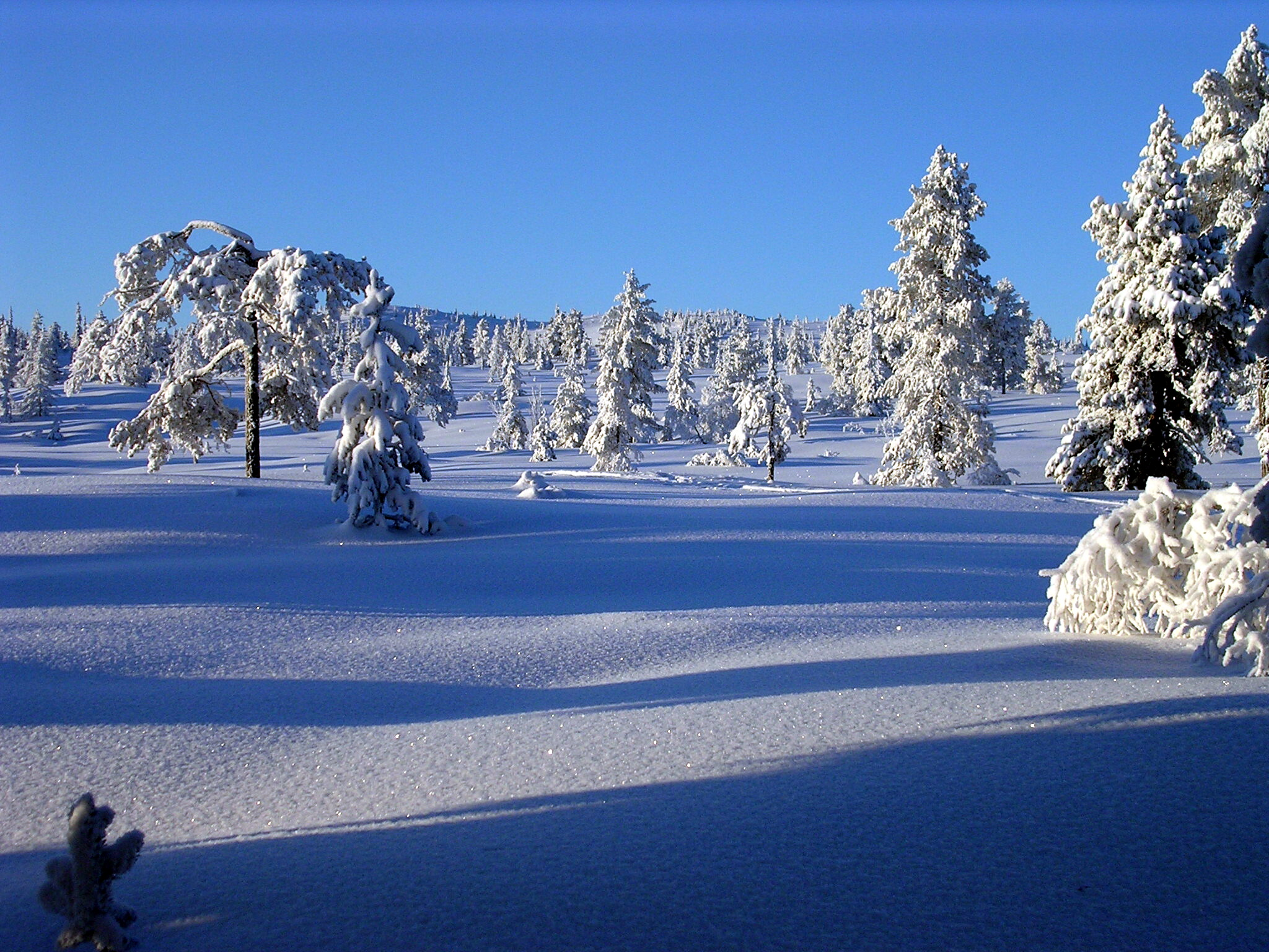 Winter landscape on Blefjell, Norway.